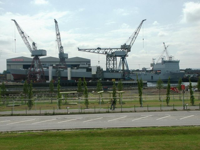 Govan Shipbuilders HMS Diamond (D34) is a Type 45 or 'D' Class of air defence destroyer (AAW) being built for the Royal Navy. Seen here on the slipway. To the right of pic, British Royal Fleet Auxiliary ship, Lyme Bay (L3007), is an auxiliary landing ship dock. Almost ready for action. Update from earlier pic